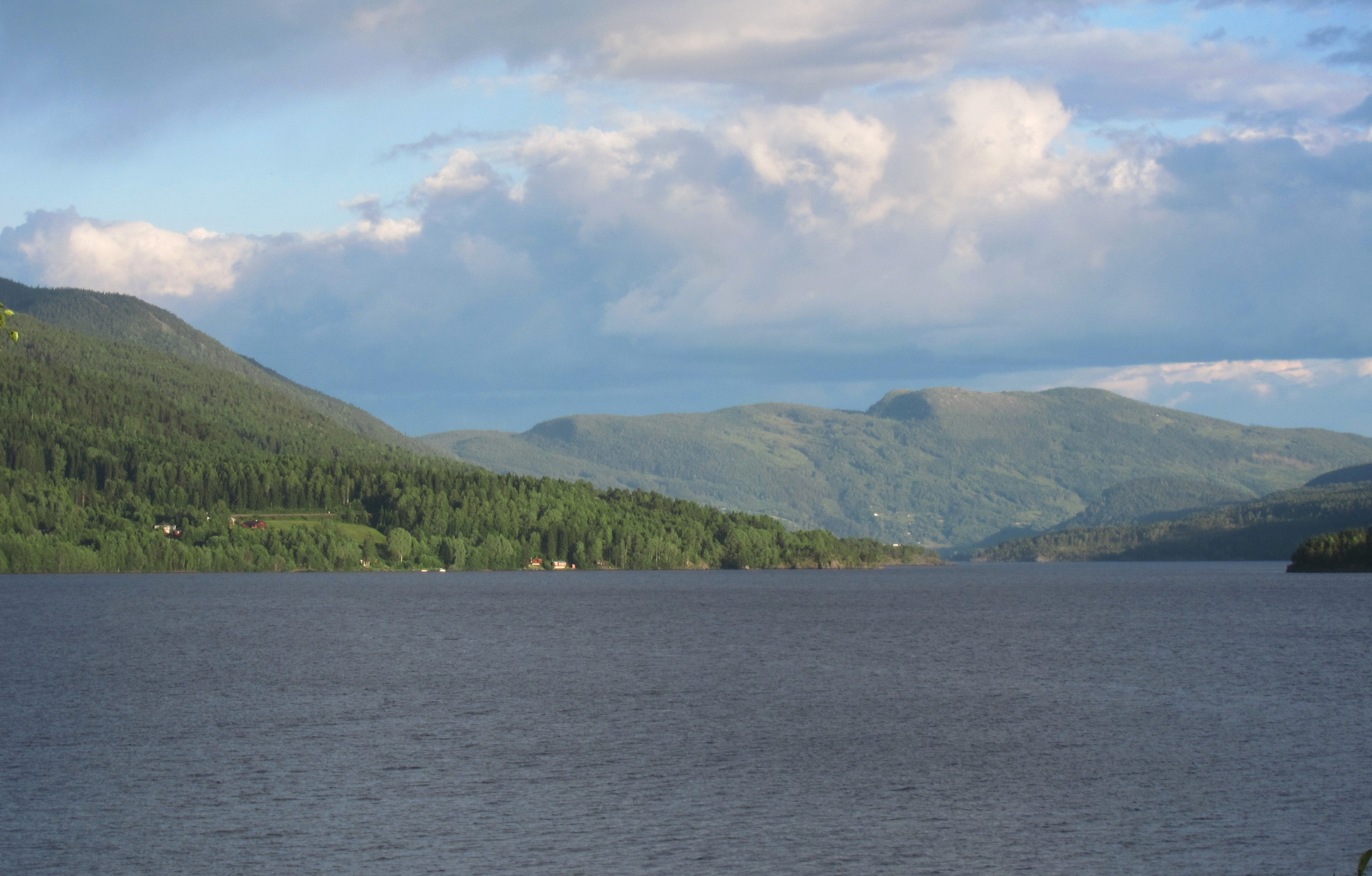 Krøderen lake in Buskerud seen from north to south, july evening.